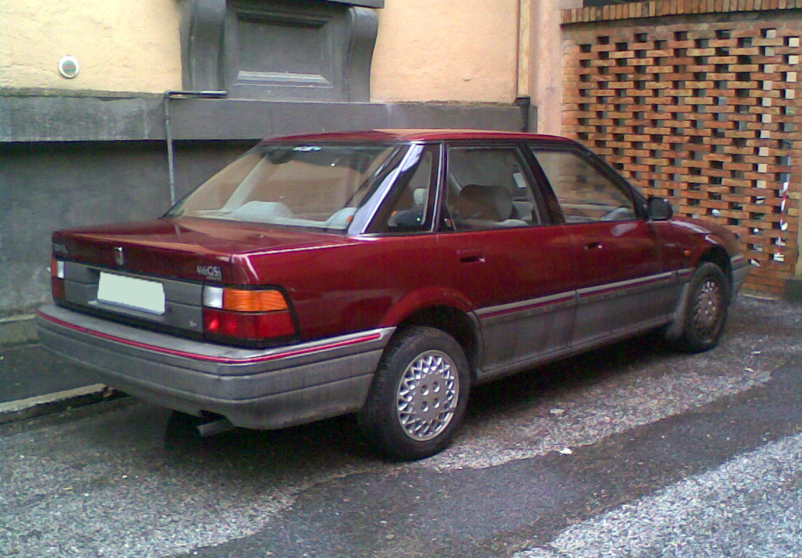 A Rover 416 GSi 16v mk1 with a 1590 cc (82 KW) engine in Rieti, Italy. Registred in November 1992.